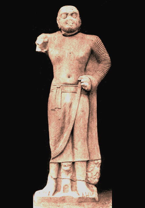 Complete inscription of Bhikshu Bala (translation on image file). A very similar statue of a Bodhisattva from Kausambi, inscribed Year 2 of Kanishka.Bodhisattava dedicated by Bhikshu Bala at Sarnath dated 123 CE by an inscription of Year 3 of the reign of Kanishka.Besides the inscription on the octogonal shaft of the umbrella (here attached), which is the longest, there are also two smaller inscriptions of similar content at the base of the statue: At the front of the base of the statue: "The gift of Friar Bala, a master of the Tripitaka, (namely an image of) the Bodhisattva, has been erected by the great satrap Kharapallana together with the satrap Vanashpara." EI8 p.179 At the back of the base of the statue: "In the 3rd year of the Maharaja Kanishka, the 3rd (month) of winter, the 23rd day, on this (date specified as) above has (this gift) of Friar Bala, a master of the Tripitaka, (namely an image of) the Bodhisattva and an umbrella with a post, been erected." EI8 p.179 "The style is that of the Mathura school, the material is the red sandstone of the Agra quarries" EI8 p.179